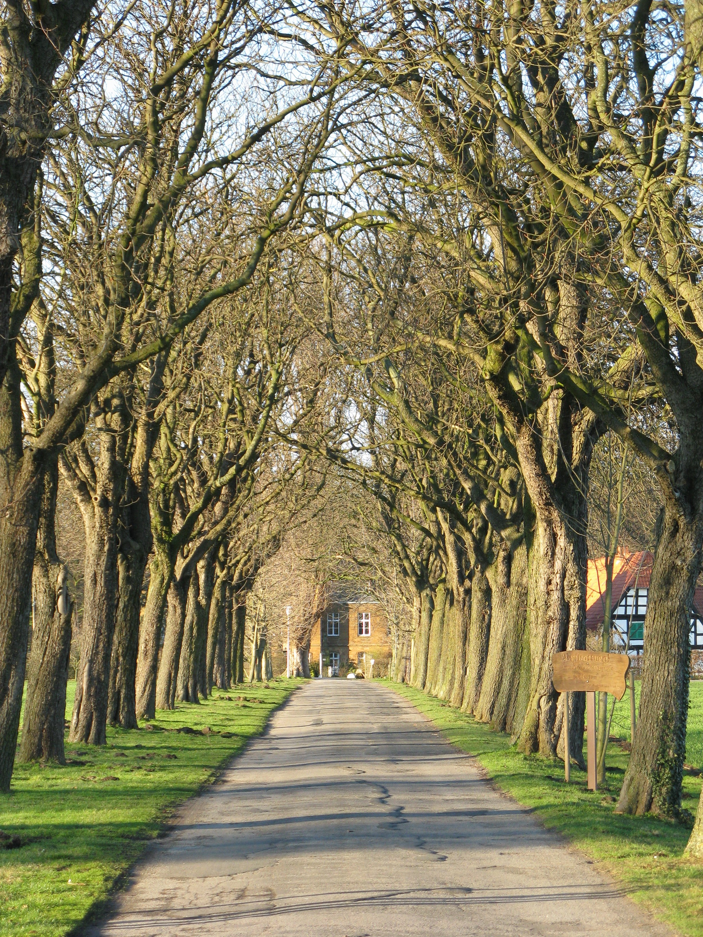 This is a photograph of an architectural monument. It is on the list of cultural monuments of Preußisch Oldendorf